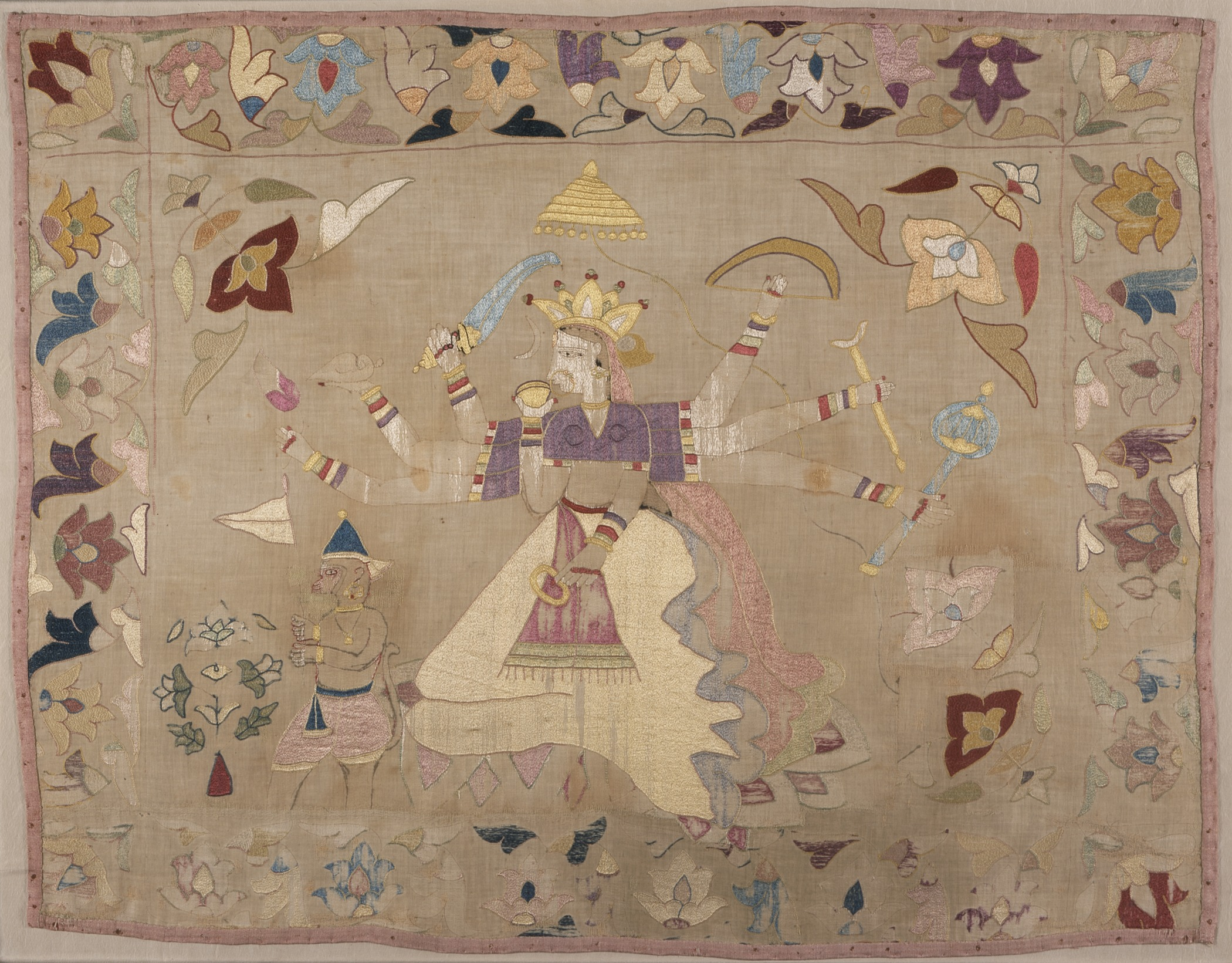 India, Himachal Pradesh, probably Chamba or Kangra, circa 1800 Textiles Silk embroidery on cotton Costume Council Fund (M.71.37.3) Costume and Textiles